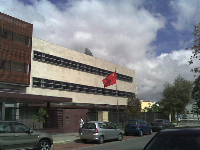 Chinese consulate in Perth